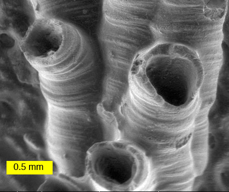 Scanning electron microscope image of a hederelloid from the Devonian of Michigan (largest tube diameter is 0.75 mm).